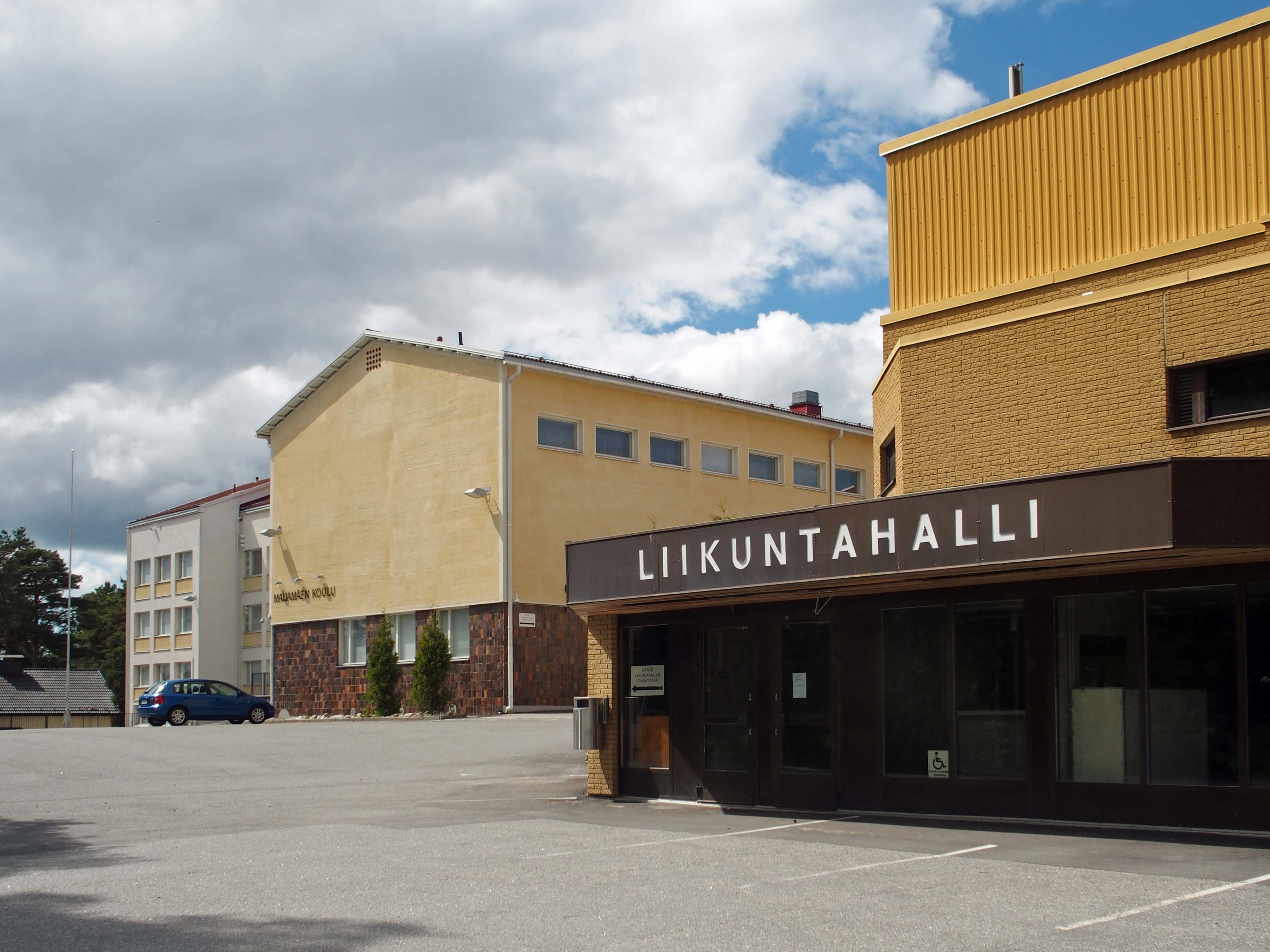 School and indoor sports arena in Maijamäki, Naantali, Finland.